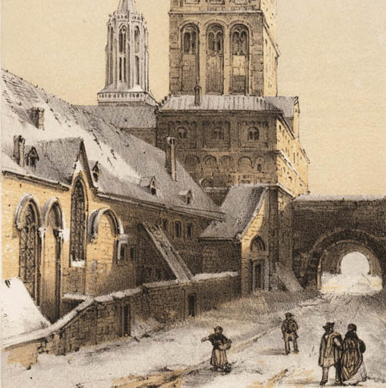 View of Sint Servaasklooster in Maastricht, Netherlands. Lithograph by Alexander Schaepkens, ca. 1850, in the collection of Leiden University Library.